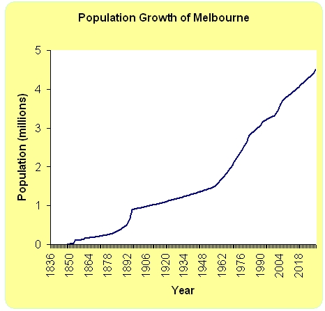 Melbourne population history